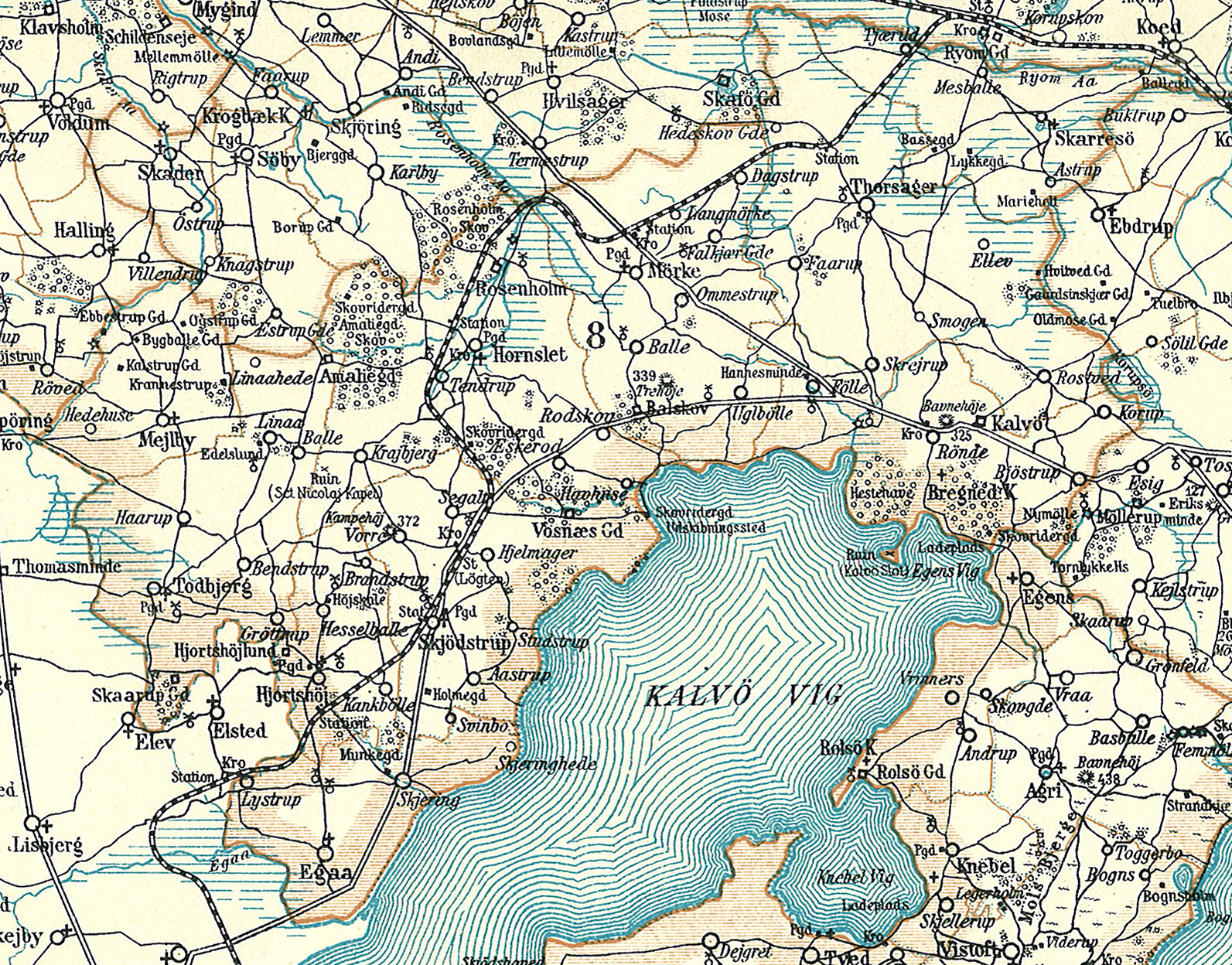 Map of Øster Lisbjerg Herred in the south-western part of Randers County in Denmark